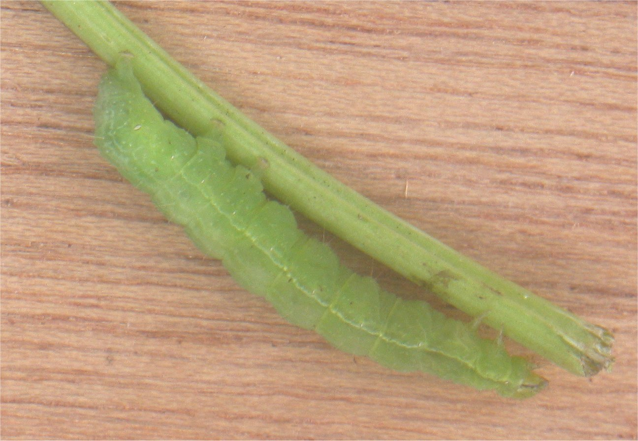 (nl: Gamma-uil op wortel) Autographa gamma on Daucus carota